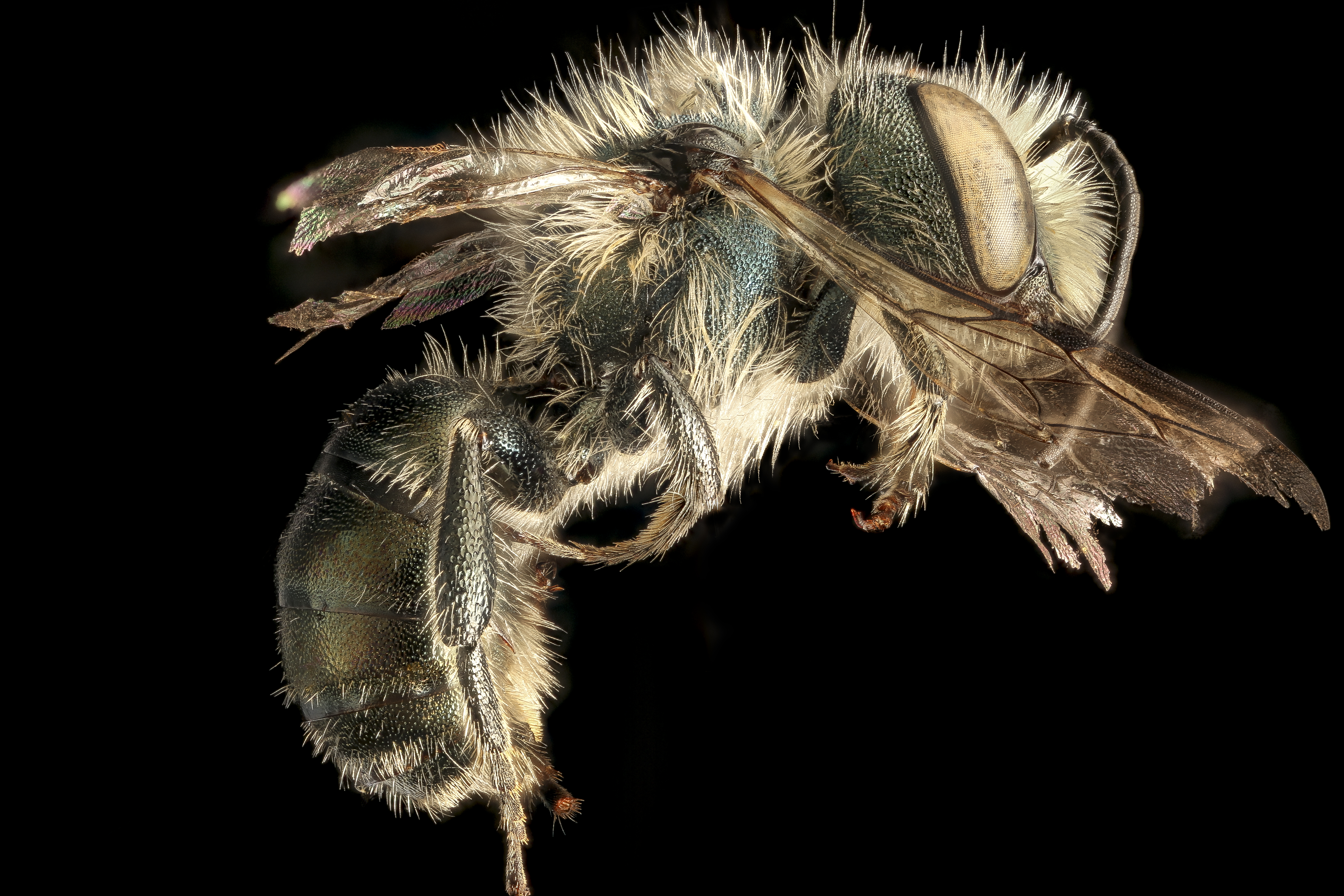 A not that great shot of a beat up male Osmia georgica from Maryland. why did I choose this lousy specimen? I am just not sure. Photo by Amanda Robinson. 14:30, 30 September 2016 (UTC)14:30, 30 September 2016 (UTC) 0 14:30, 30 September 2016 (UTC)14:30, 30 September 2016 (UTC) All photographs are public domain, feel free to download and use as you wish. Photography Information: Canon Mark II 5D, Zerene Stacker, Stackshot Sled, 65mm Canon MP-E 1-5X macro lens, Twin Macro Flash in Styrofoam Cooler, F5.0, ISO 100, Shutter Speed 200 Beauty is truth, truth beauty - that is all Ye know on earth and all ye need to know " Ode on a Grecian Urn" John Keats You can also follow us on Instagram - account = USGSBIML Want some Useful Links to the Techniques We Use? Well now here you go Citizen: Art Photo Book: Bees: An Up-Close Look at Pollinators Around the World Basic USGSBIML set up: USGSBIML Photoshopping Technique: Note that we now have added using the burn tool at 50% opacity set to shadows to clean up the halos that bleed into the black background from "hot" color sections of the picture. PDF of Basic USGSBIML Photography Set Up: ftp://ftpext.usgs.gov/pub/er/md/laurel/Droege/How%20to%20Take%20MacroPhotographs%20of%20Insects%20BIML%20Lab2.pdf Google Hangout Demonstration of Techniques: or Excellent Technical Form on Stacking: Contact information: Sam Droege 301 497 5840